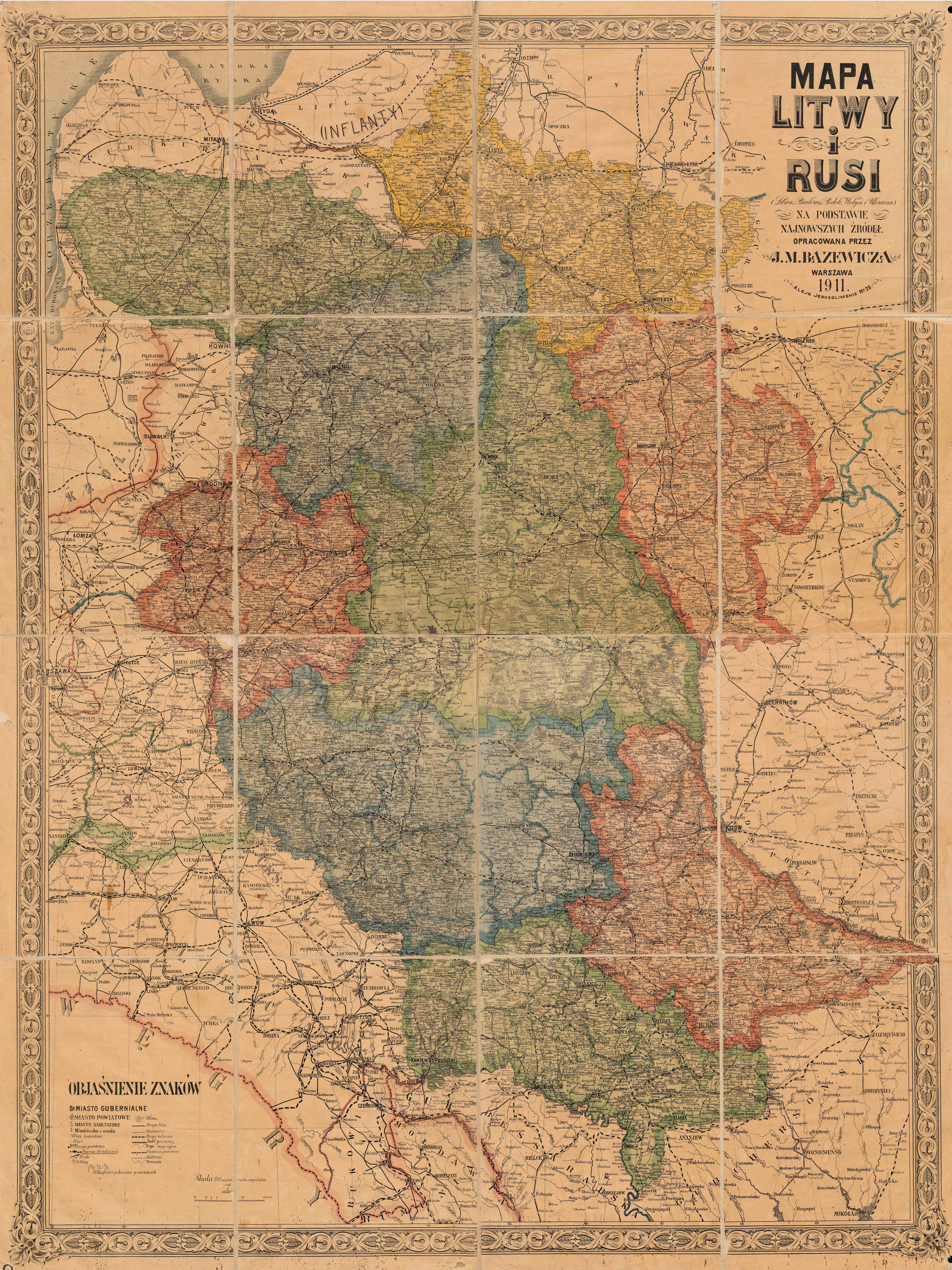 map of Litwa and Rus (Lithuania, Belarus, Podolia, Wolynia, Ukraine), author: J.M. Bazewicz, 1911 AD